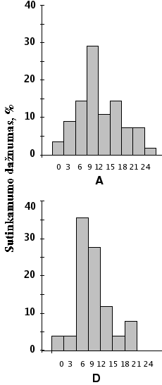 The change of kurtosis of the gravitropic response in wheat coleoptiles